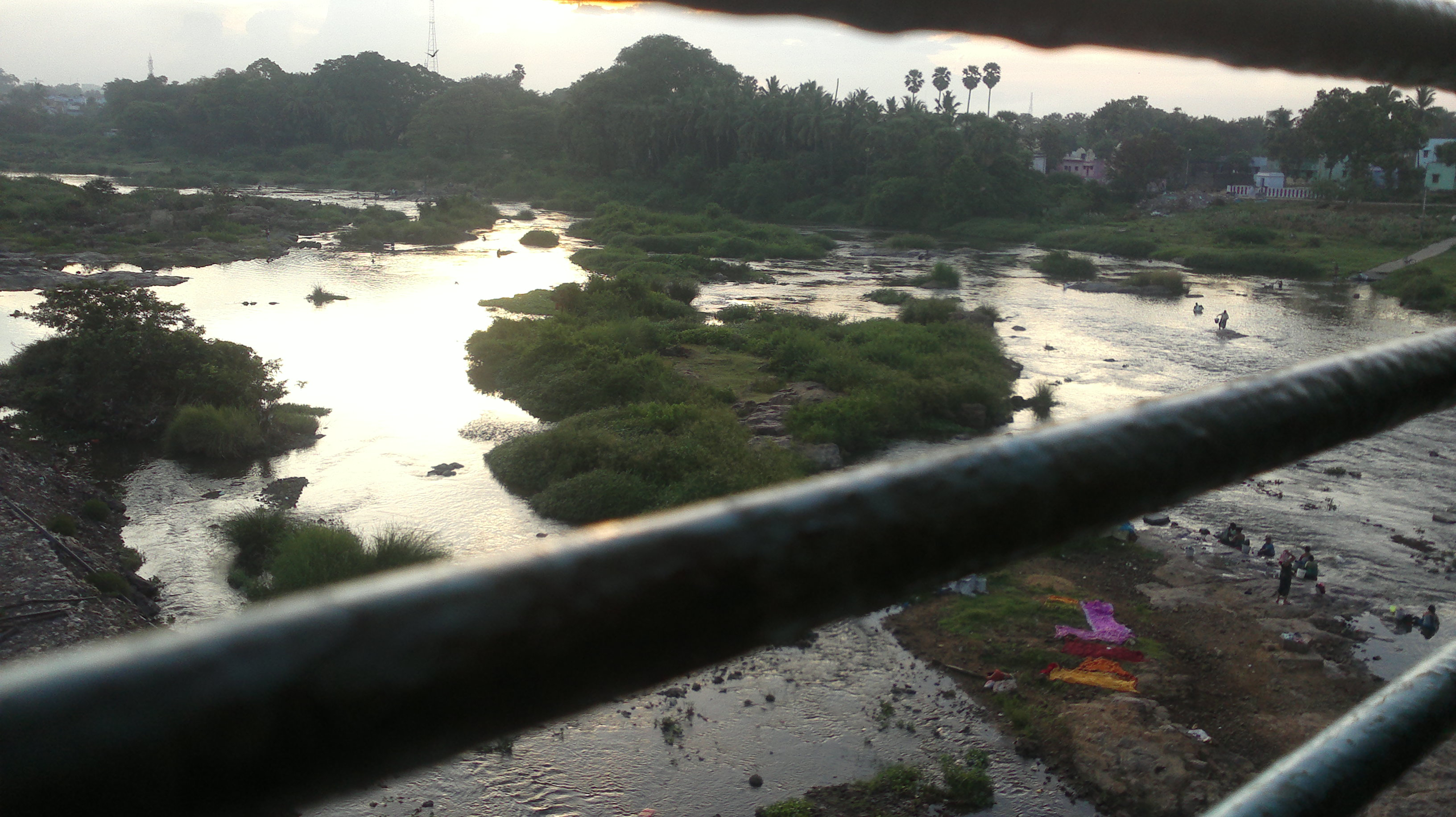 தாமிரபரணி நதி